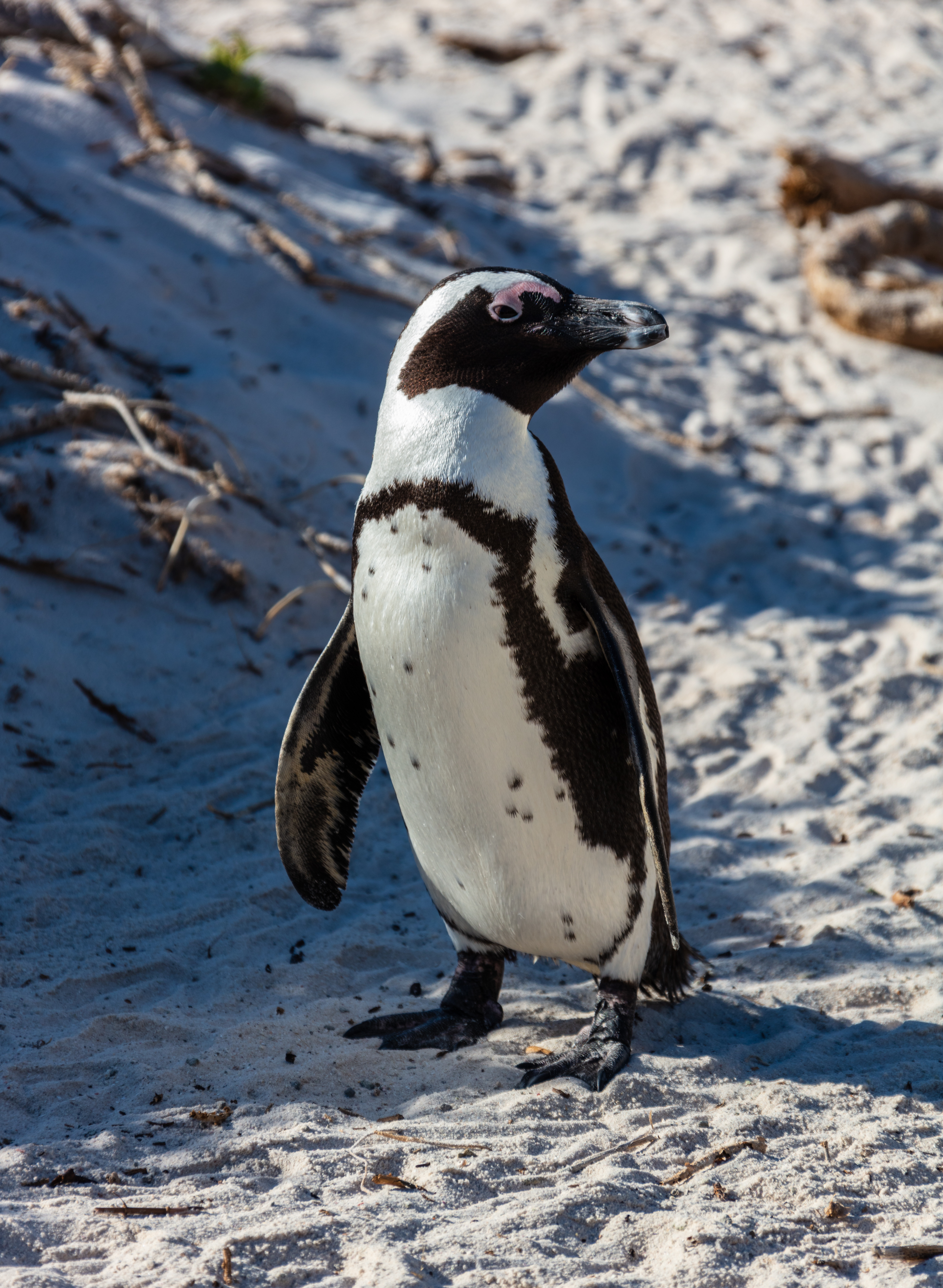 African penguin (Spheniscus demersus), Boulders Beach, Simon's Town, South Africa